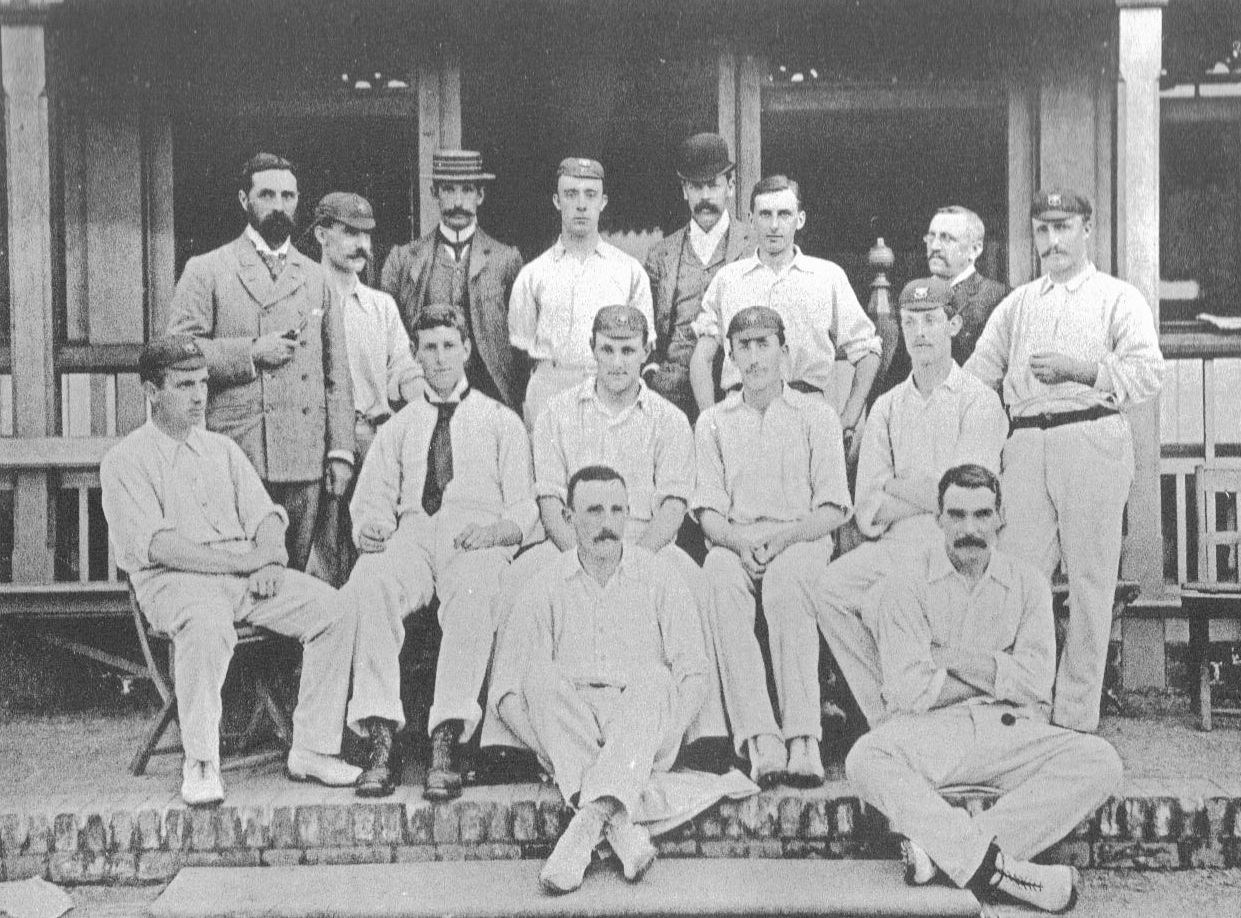 The Somerset County Cricket Club team in 1892, cropped from a large image with borders.